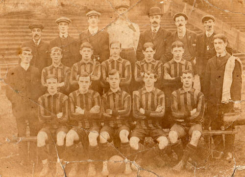 Merthyr Town F.C. pictured in 1909.